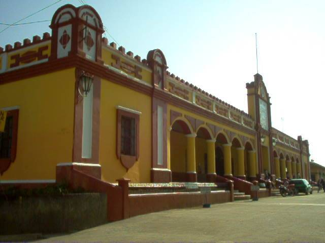 Municipalidad de San Cristóbal Verapaz